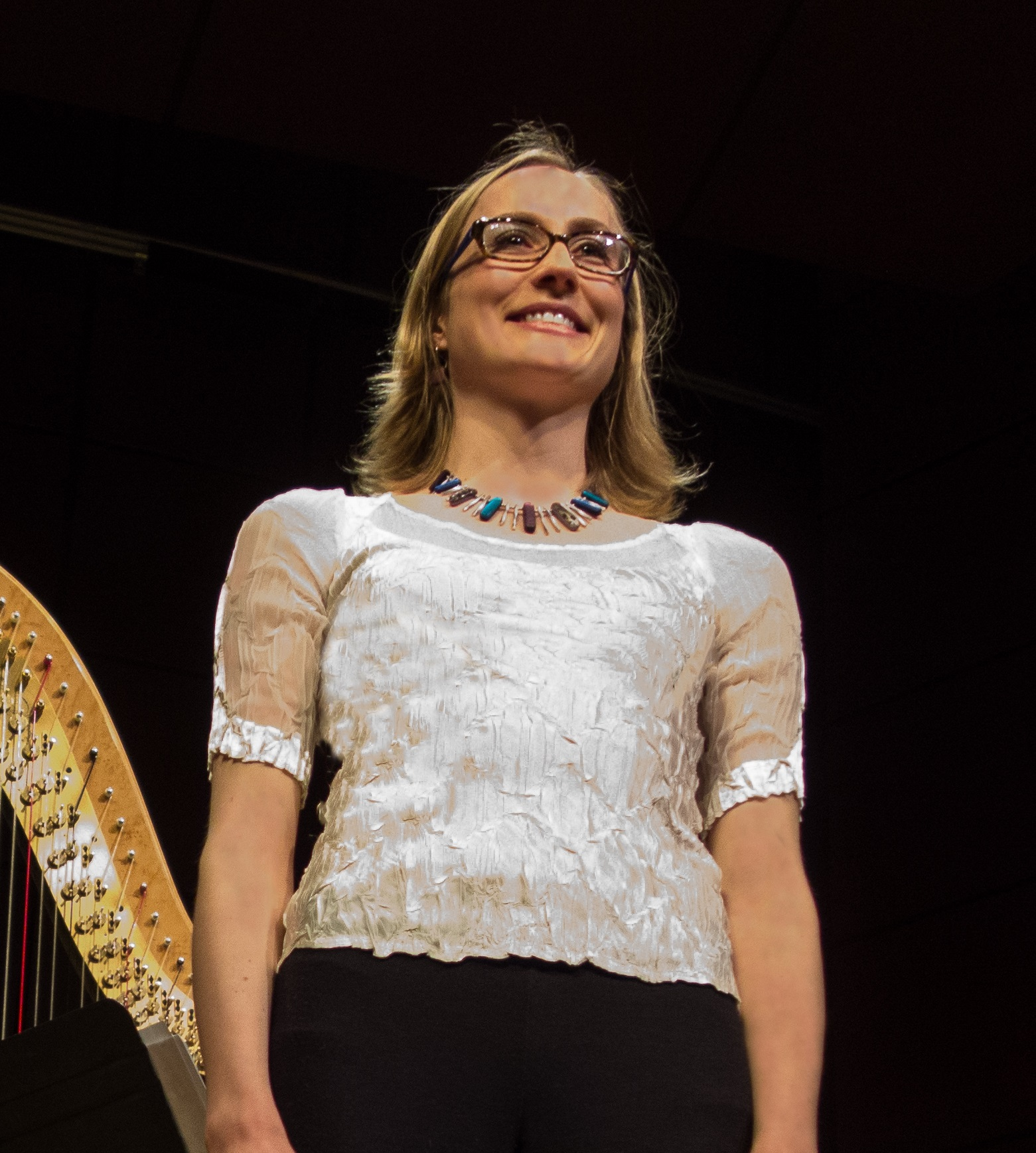 Hannah Lash in 2014